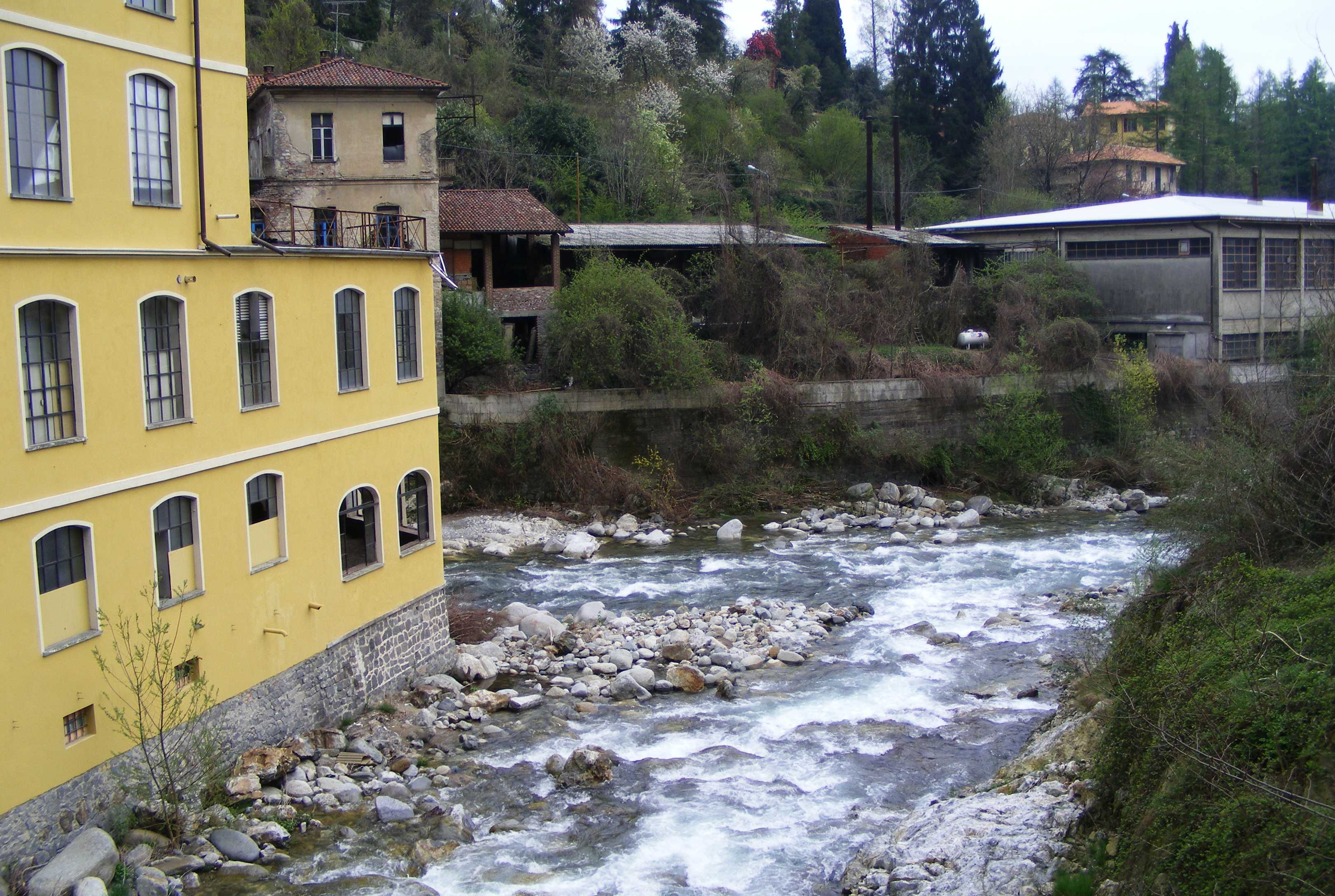 Oropa-Cervo confluence (Biella, Italy)